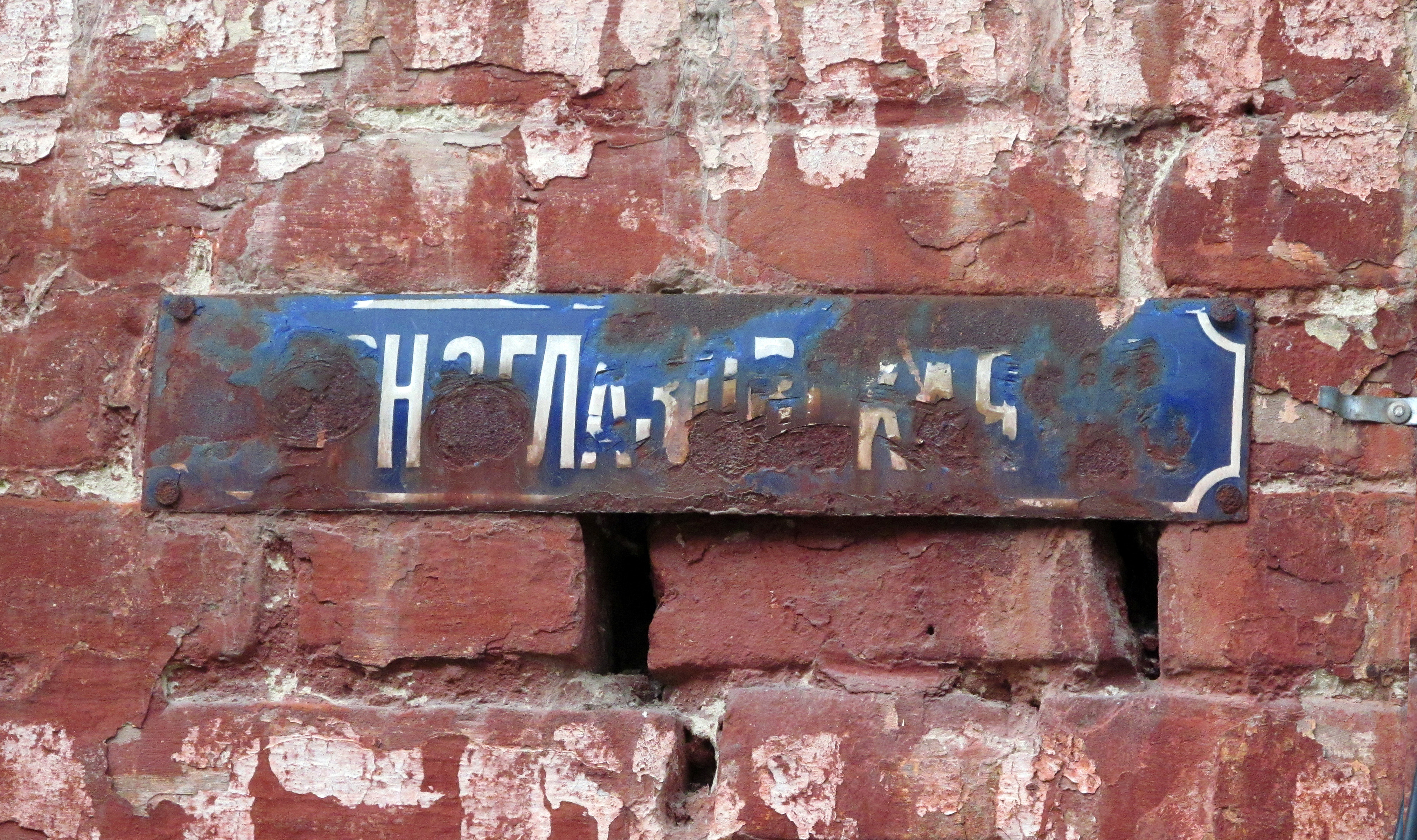 Marshala Bazhanova street, Kharkiv, Ukraine. A plaque with the old name of the street.